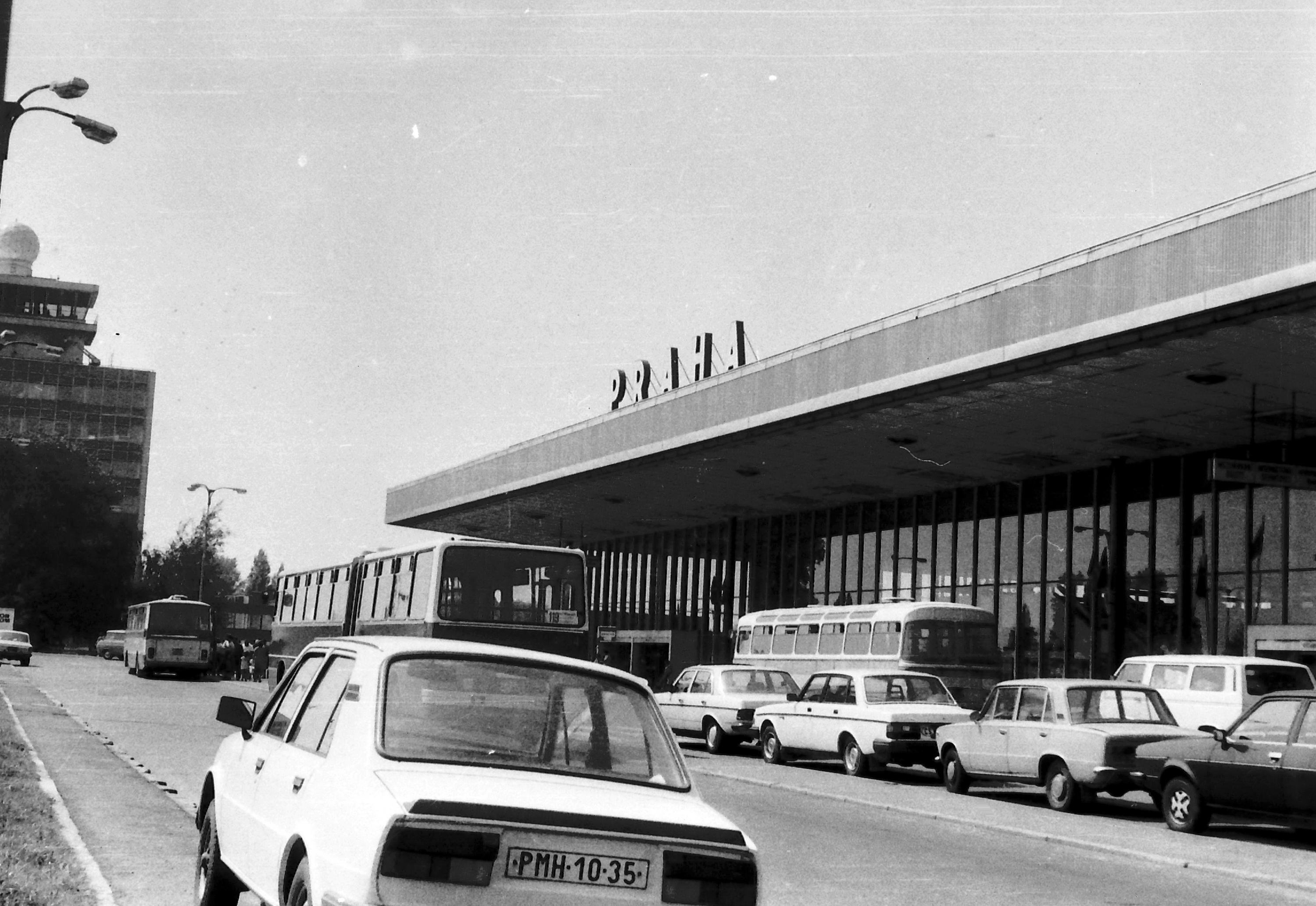 Terminal 1 of Prague Airport in summer 1985